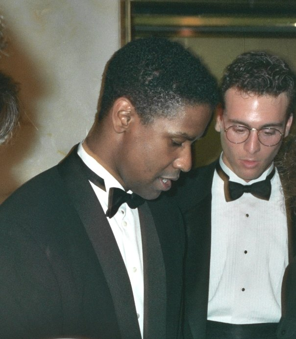 1990 Academy Awards NOTE: Permission granted to copy, publish, broadcast or post any of my photos, but please credit "photo by Alan Light" if you can. Thanks. Scanned from the original 35MM film negative.